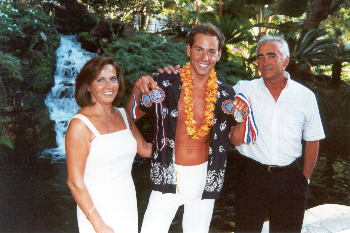 Swimming World Champlion, Honolulu (Hawaii)